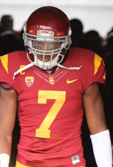 USC Trojans safety, T.J. McDonald, right before the start of a game against the UCLA Bruins on November 17, 2012.